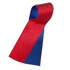 A red-blue ribbon - symbol of the International Firefighters' Day (IFFD).